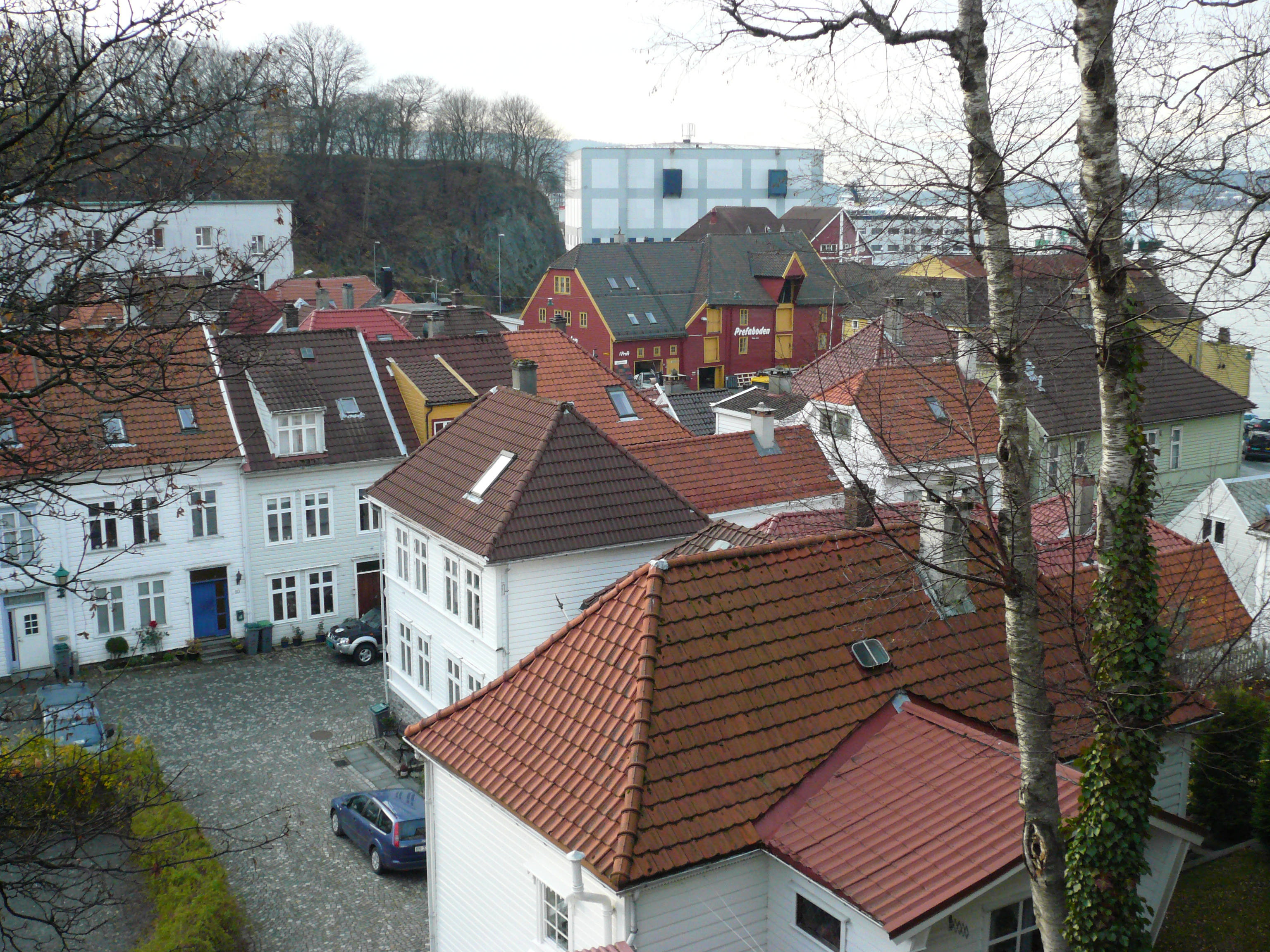 Neighbourhood in Skuteviken, Bergen, Norway